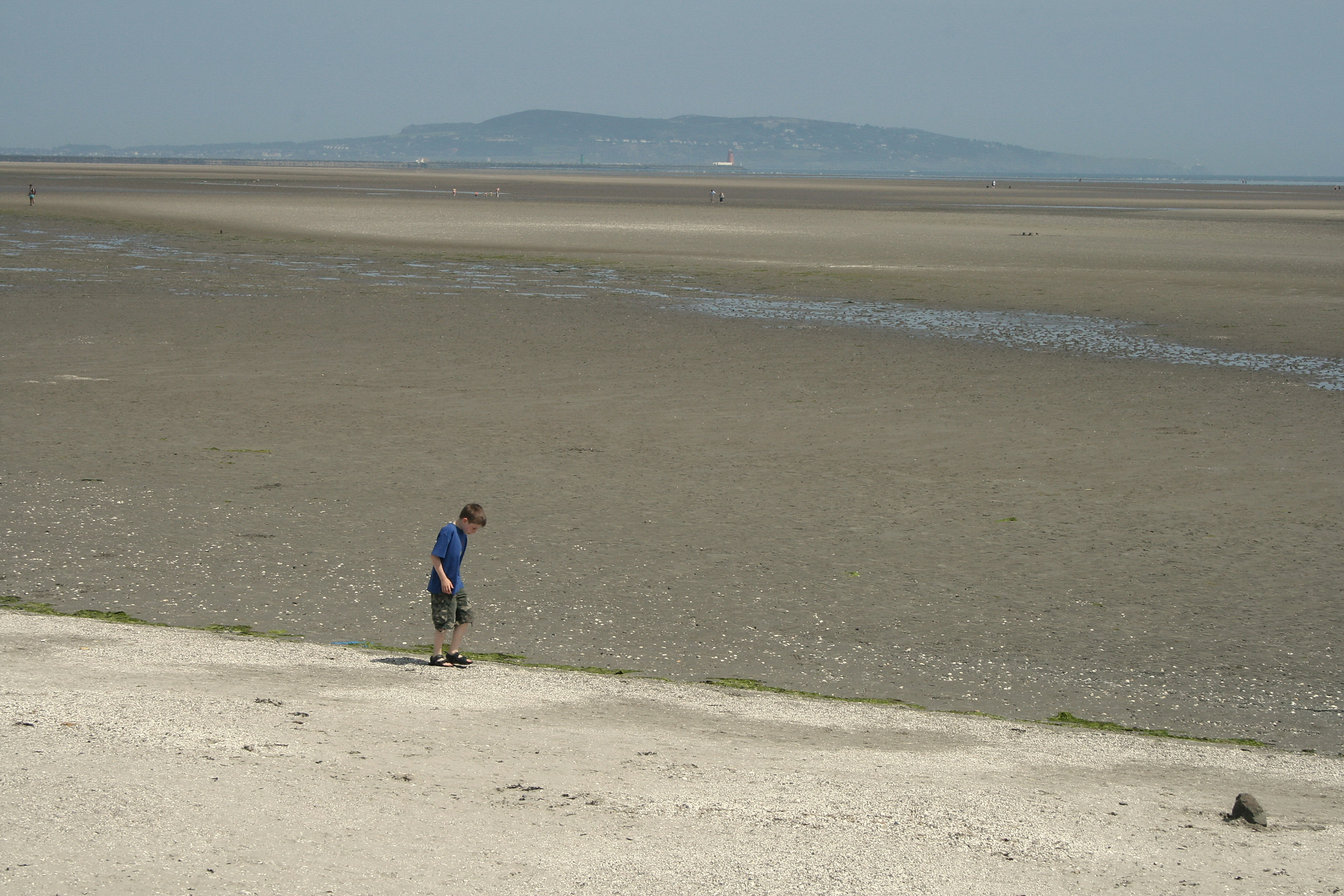 Sandymount Strand, Howth Head in the distance; Dublin, Ireland